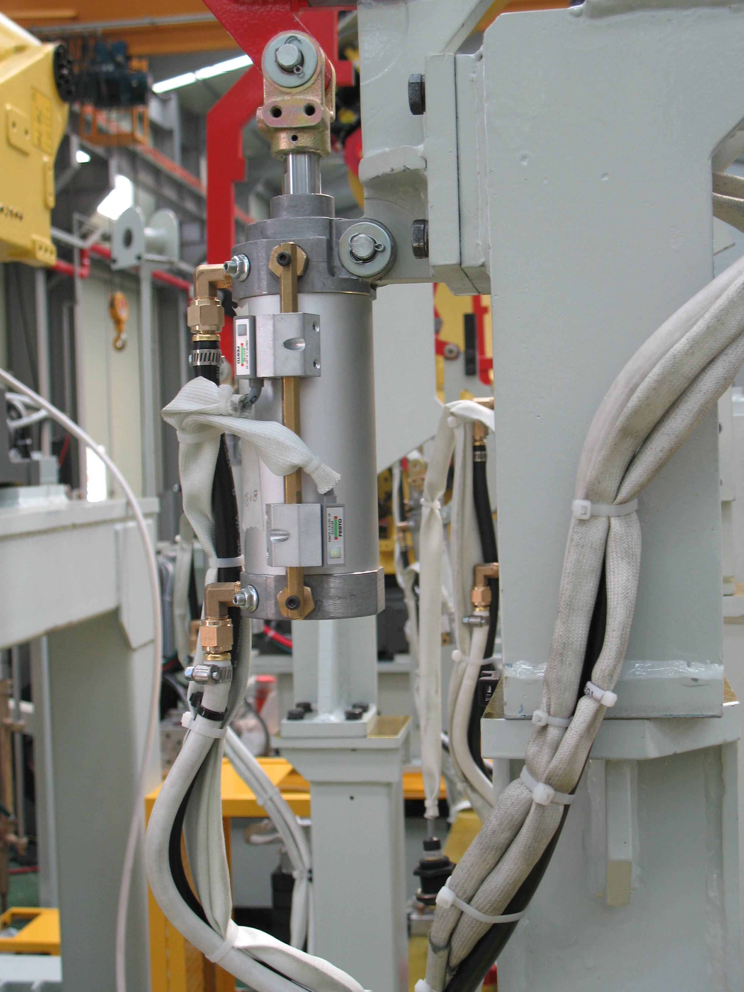 Pneumatic cylinder with sensors